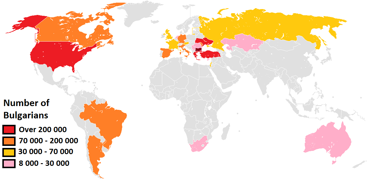 Number of Bulgarian citizens around the world